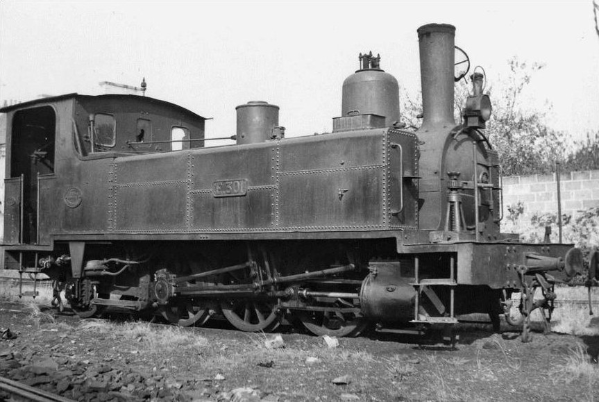 Steam locomotive SACM 031 T n° E 301 of Réseau Breton in Carhaix.